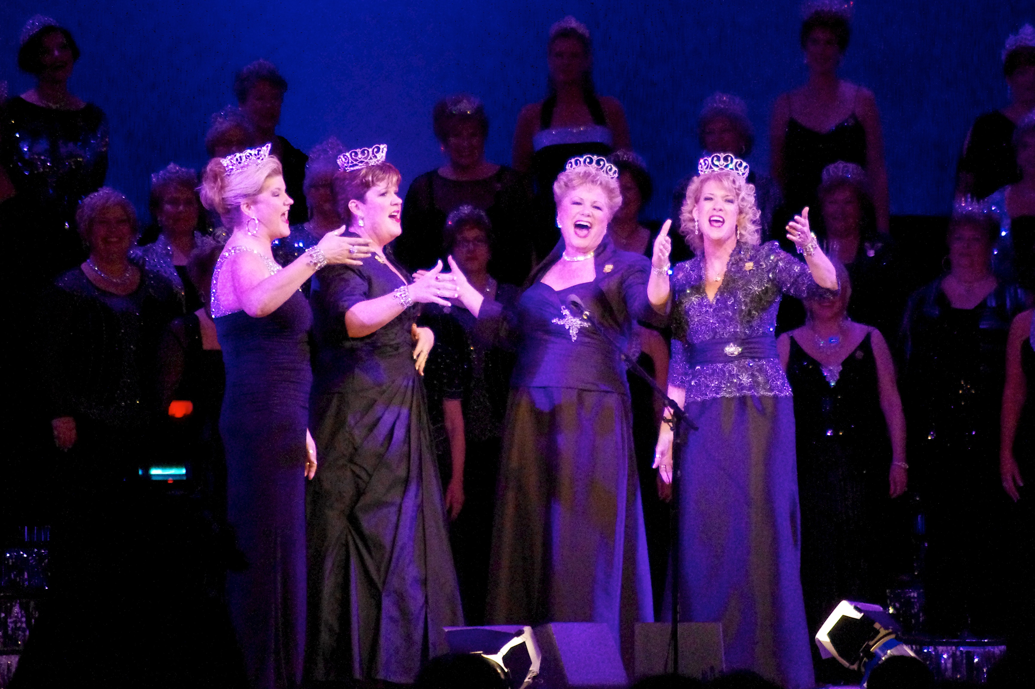 MAXX Factor quartet performing at the 2011 Sweet Adelines International "coronet club show" in Houston, Texas